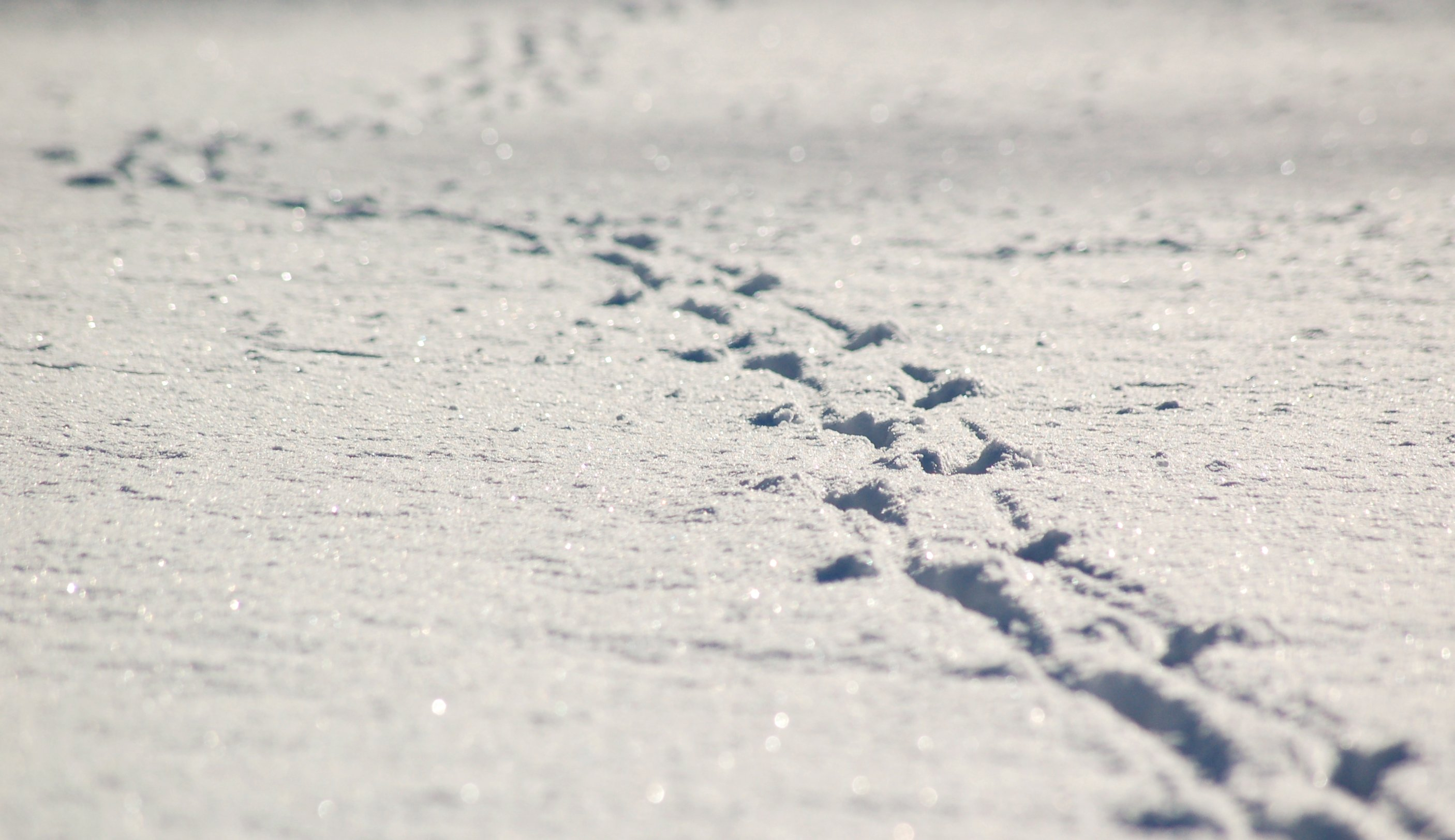 Tracks in snow